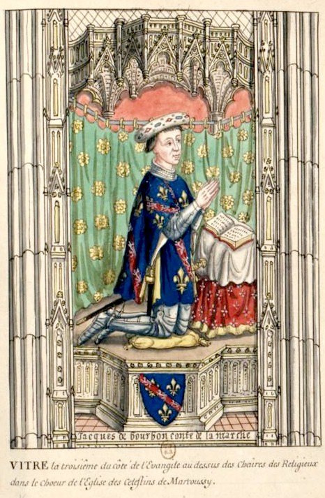 2=James I, Count of La Marche